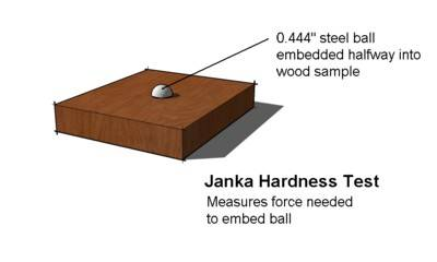 A diagram of the Janka hardness test with ball